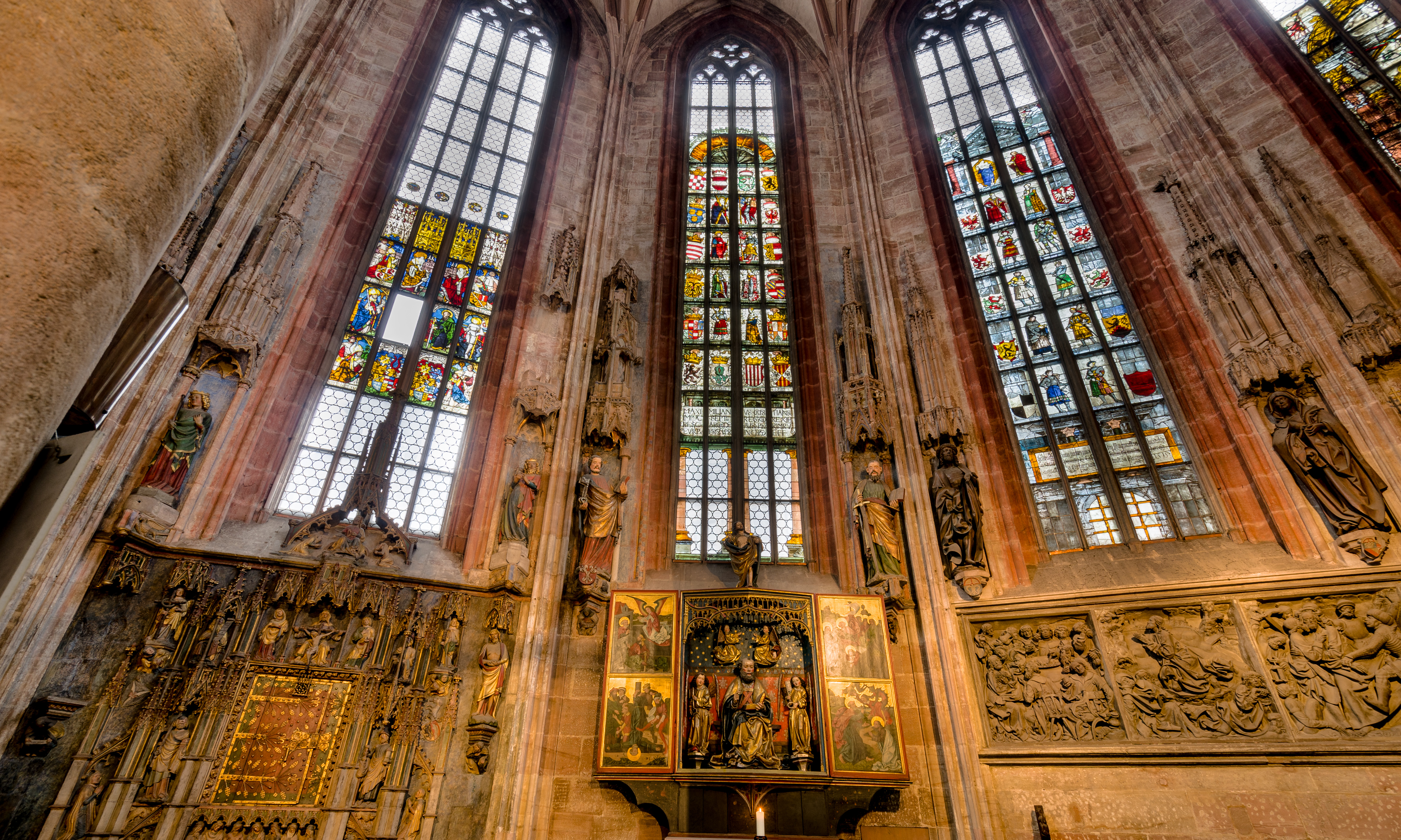 Window of the Emperor in Sabaldus Church in Nuremberg over altar of Peter